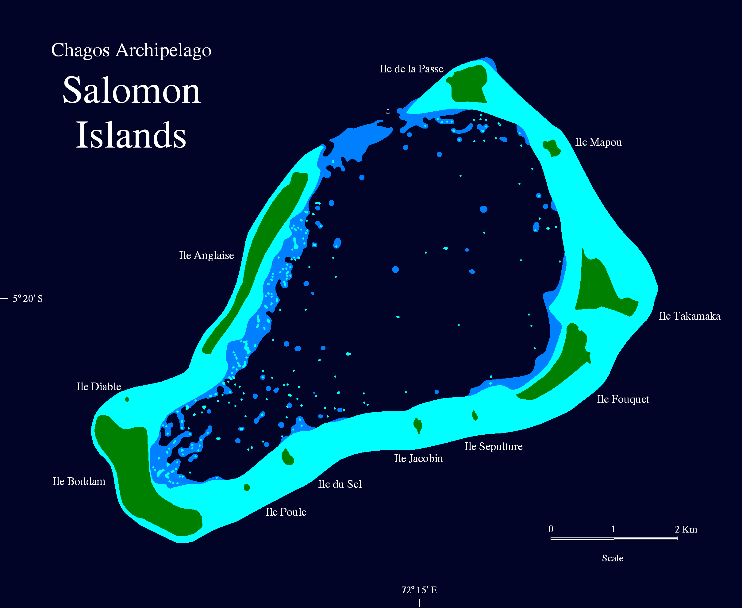 Map of Salomon Islands Atoll, Chagos Archipelago, BIOT